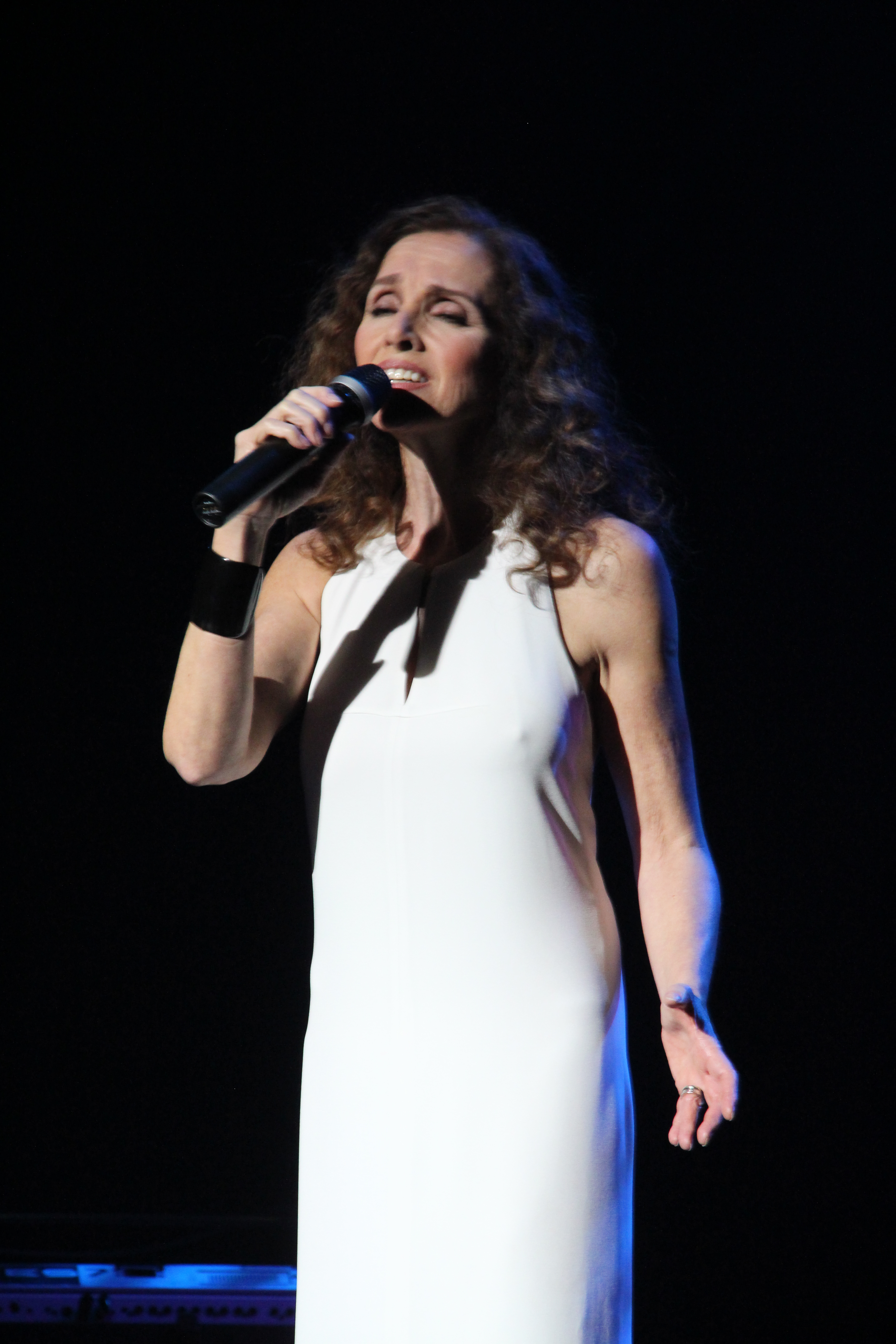 Ana Belén.